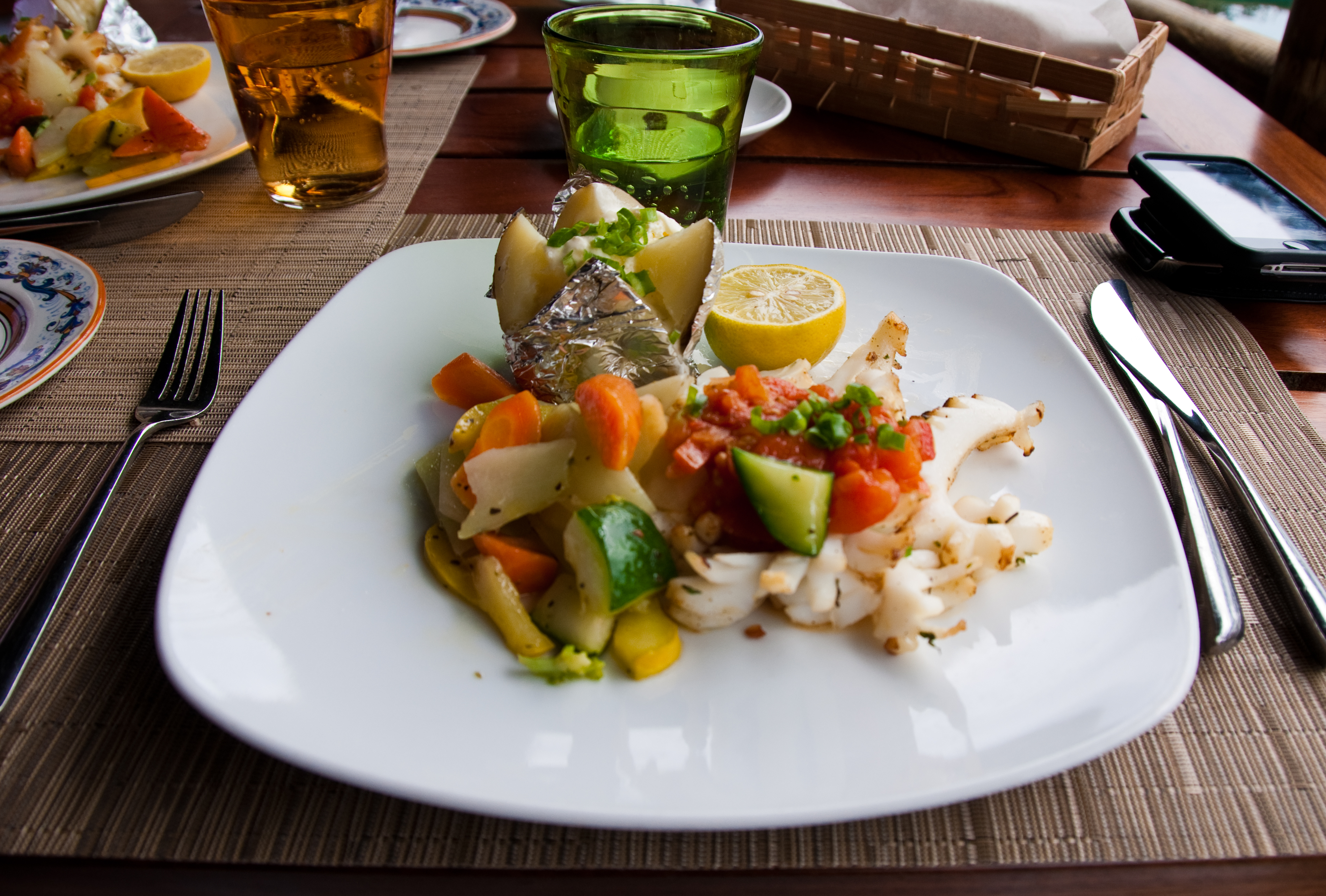 Fish - La Pirogue - Mauritius Isl.